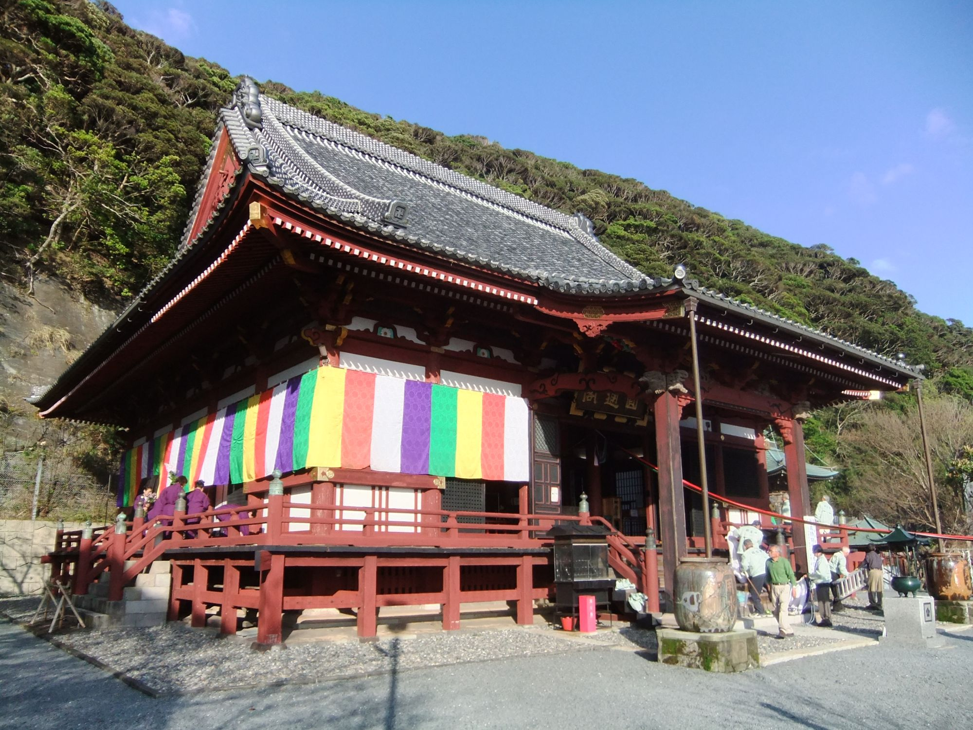 Kannon-dō (Main hall) of Nago-ji temple in Tateyama, Chiba